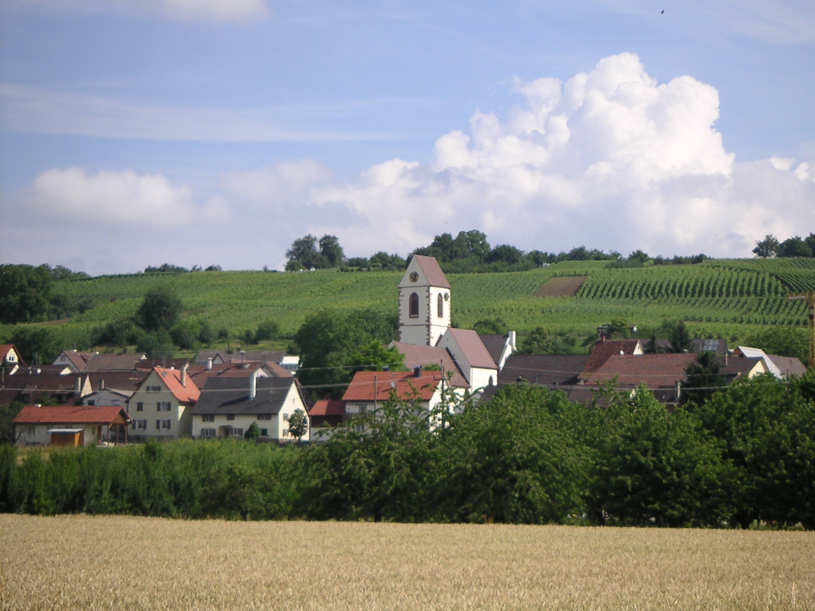 Impressions of Fischingen (Baden)